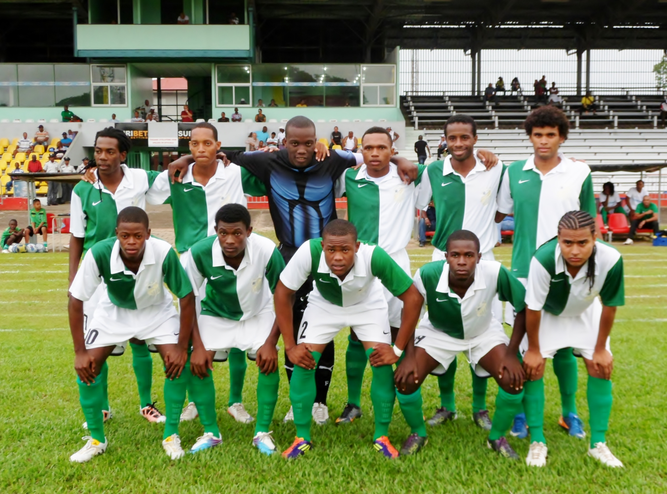 SV Transvaal line-up ahead of the championship match against rivals SV Robinhood in the André Kamperveen Stadion. Back row f.l.t.r: Jurmy Blokland, Lorenzo Zoutkamp, Firgilio Lamsberg, Michael Crandon, Sean Cooper, Mauricio da Silva Santos; front row f.l.t.r: Serginio Eduard, Miguel Darson, Guillermo Faerber, Cleandro File, Kevin Martin.